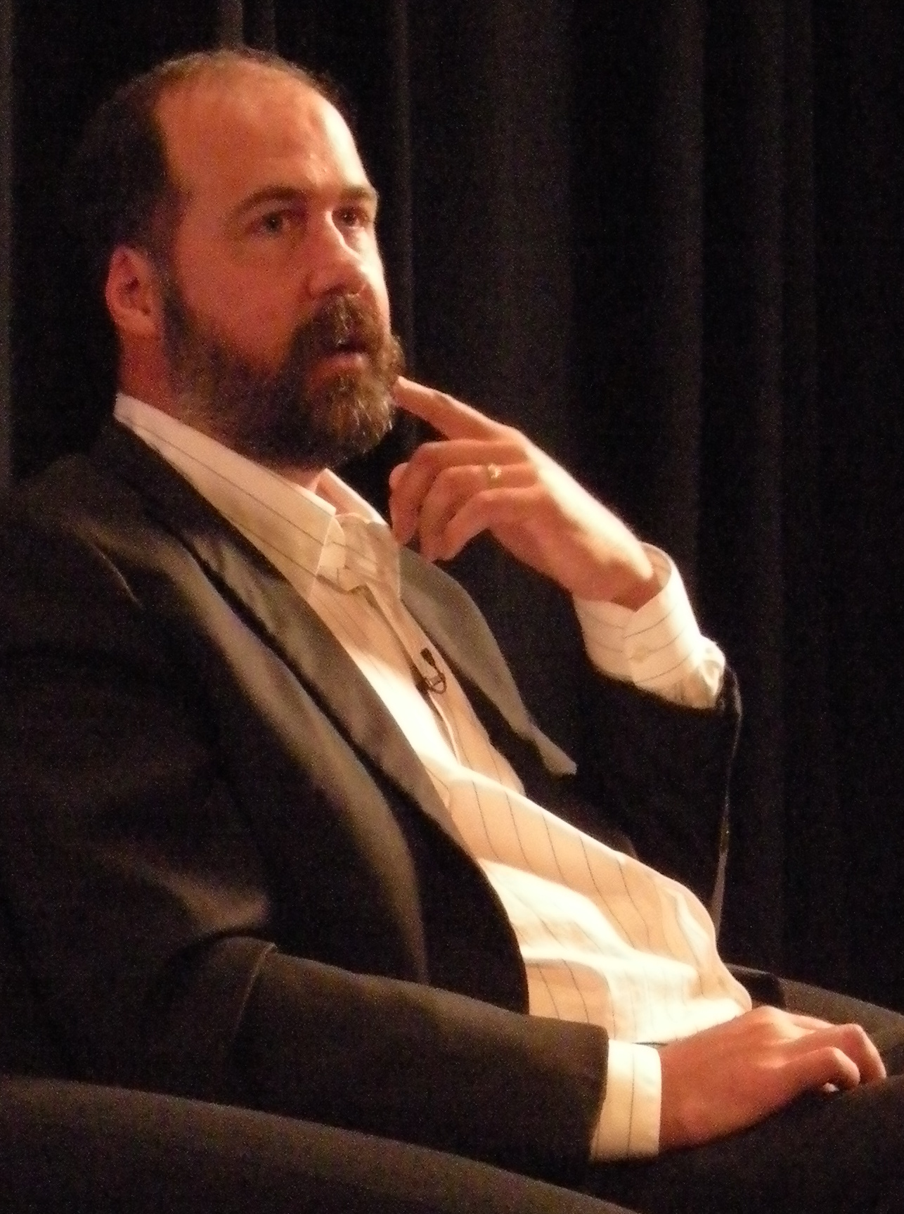 Krist Novoselic appearing as part of the Oral History Live series at Experience Music Project, Seattle, Washington.